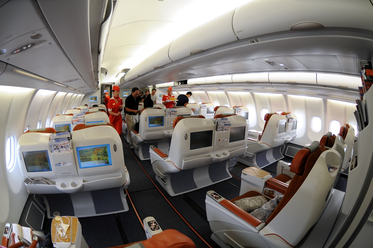 Welcome on bord Aeroflot flight! AFL 581 from UUEE to RJAA.